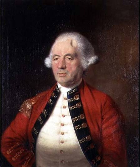 Portrait of Swiss-born British General Augustine Prevost.